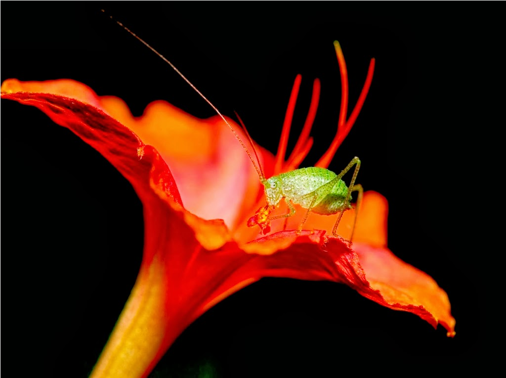 A Katydid on Mirabilis jalapa / four O clock plant / Marvel of Peru. This is the most commonly grown ornamental species of Mirabilis, and is available in a range of colours.True Katydids are relatives of grasshoppers and crickets. They grow over two inches long and are leaf-green in color. Katydids have oval-shaped wings with lots of veins. They resemble leaves.True Katydids live in forests, thickets. or fields with lots of shrubs or trees.